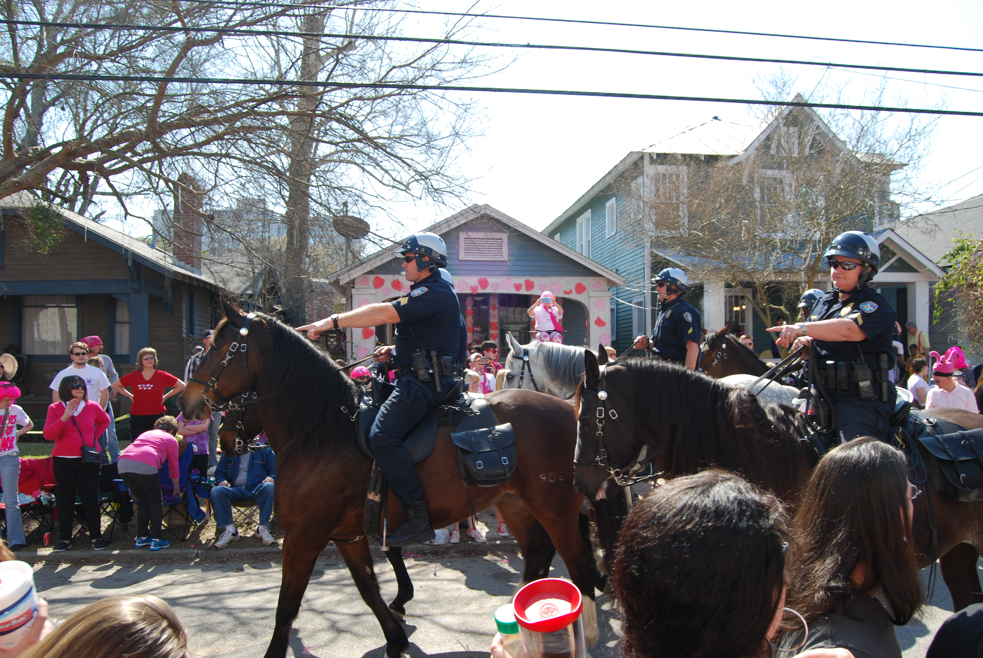 Mardi Gras celebrations in the Spanish Town section of Baton Rouge, Louisiana.